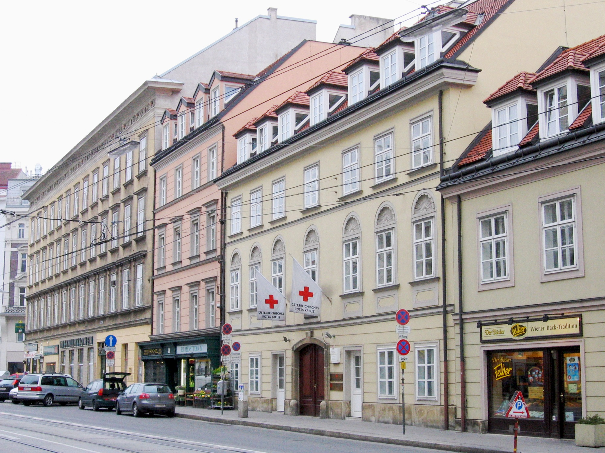 Buildings in the Wiedner Hauptstraße, Headquarter of the Austrian Red Cross